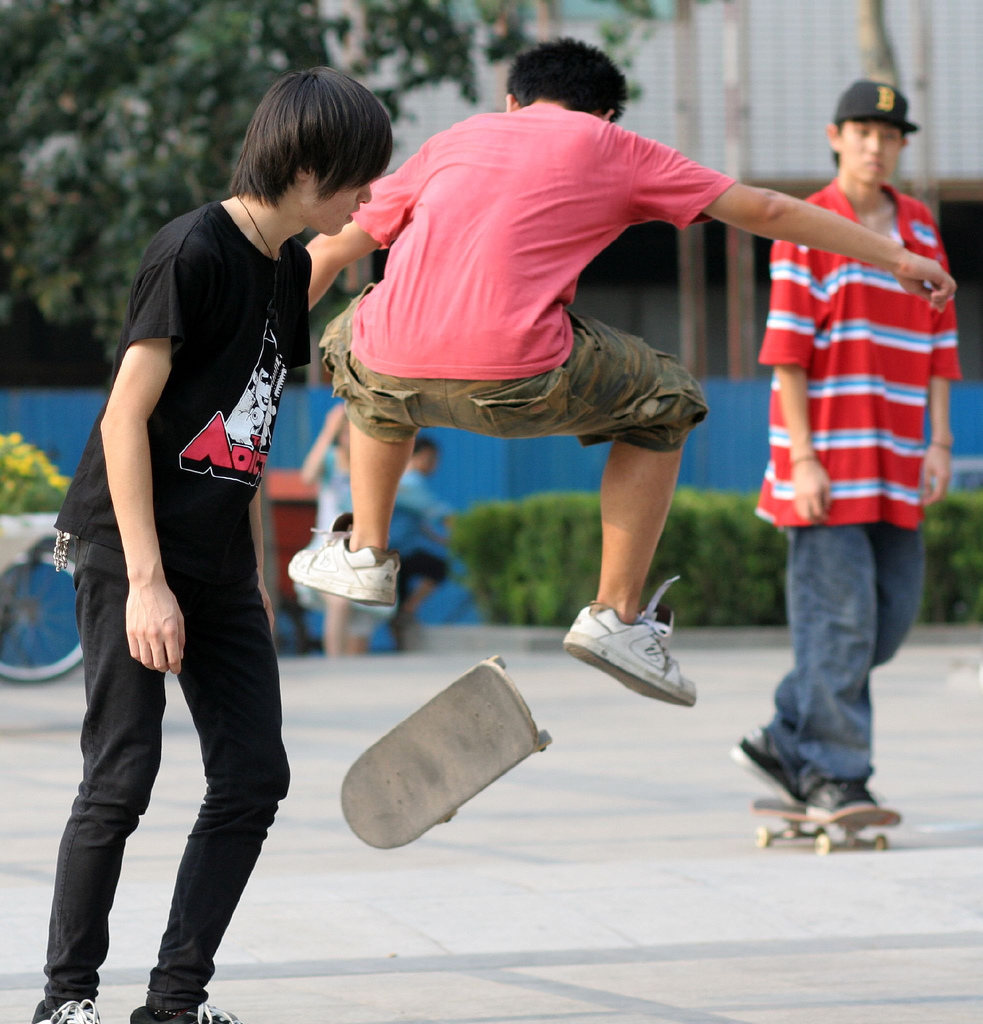 there's an old catholic church on wangfujing which always has skateboarders in front of it. I've never seen them skating anywhere else.